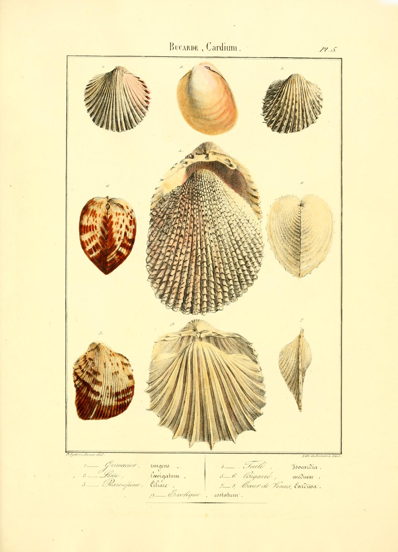 Iconographie Conchologique Roux